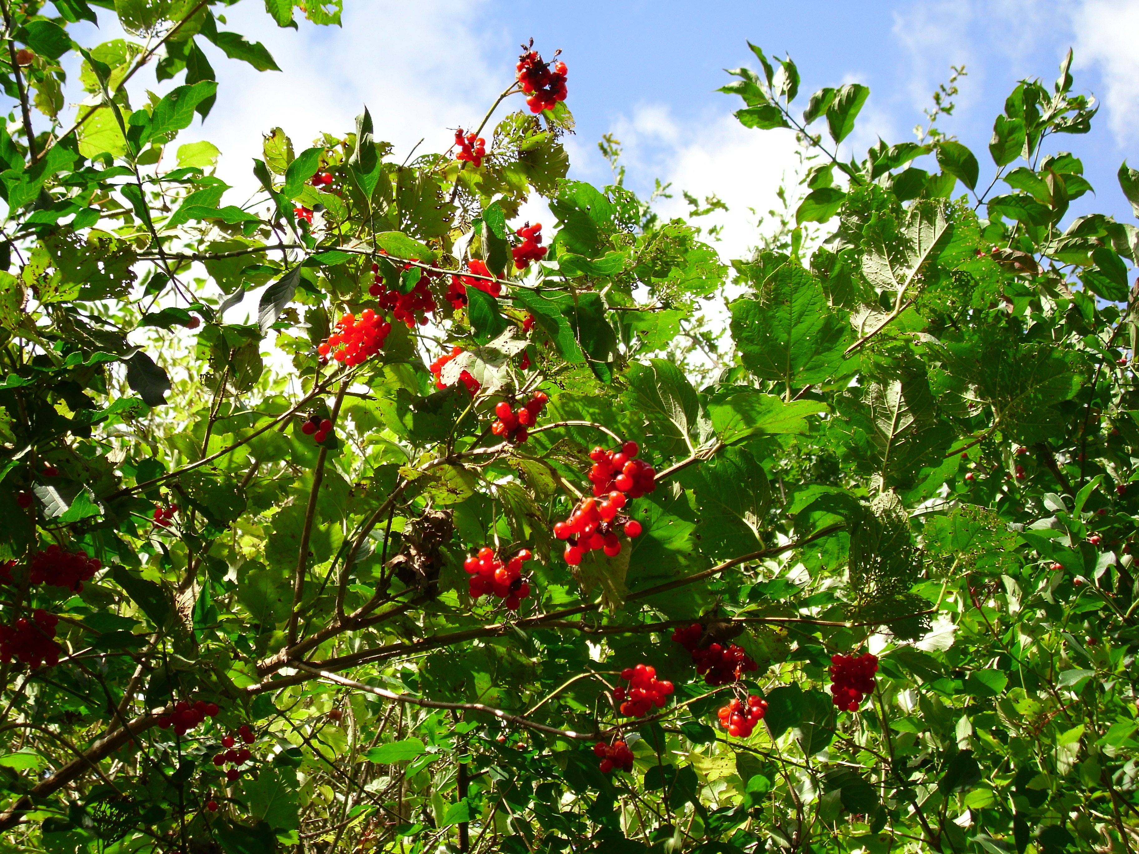 Viburnum opulus fruit